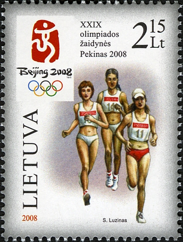 Stamps of Lithuania, 2008